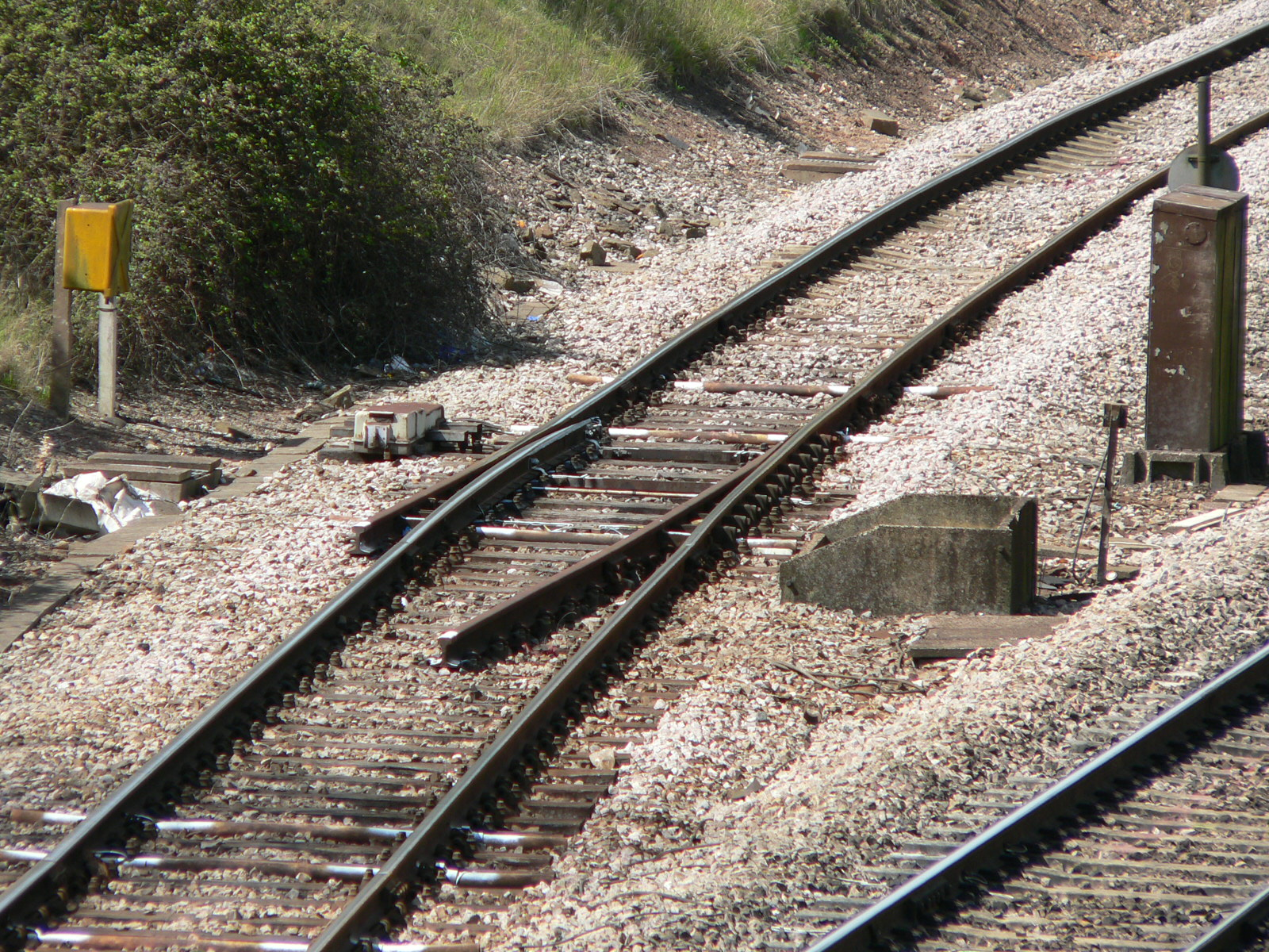 The catch points at the eastern end of Stoke Gifford rail yard designed to protect the South Wales Main Line, the westbound track of which can be seen in the bottom right corner of the picture, by derailing any train away from the main line.